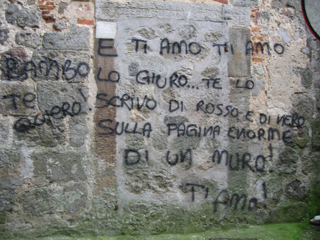 Love message on a wall in Italy